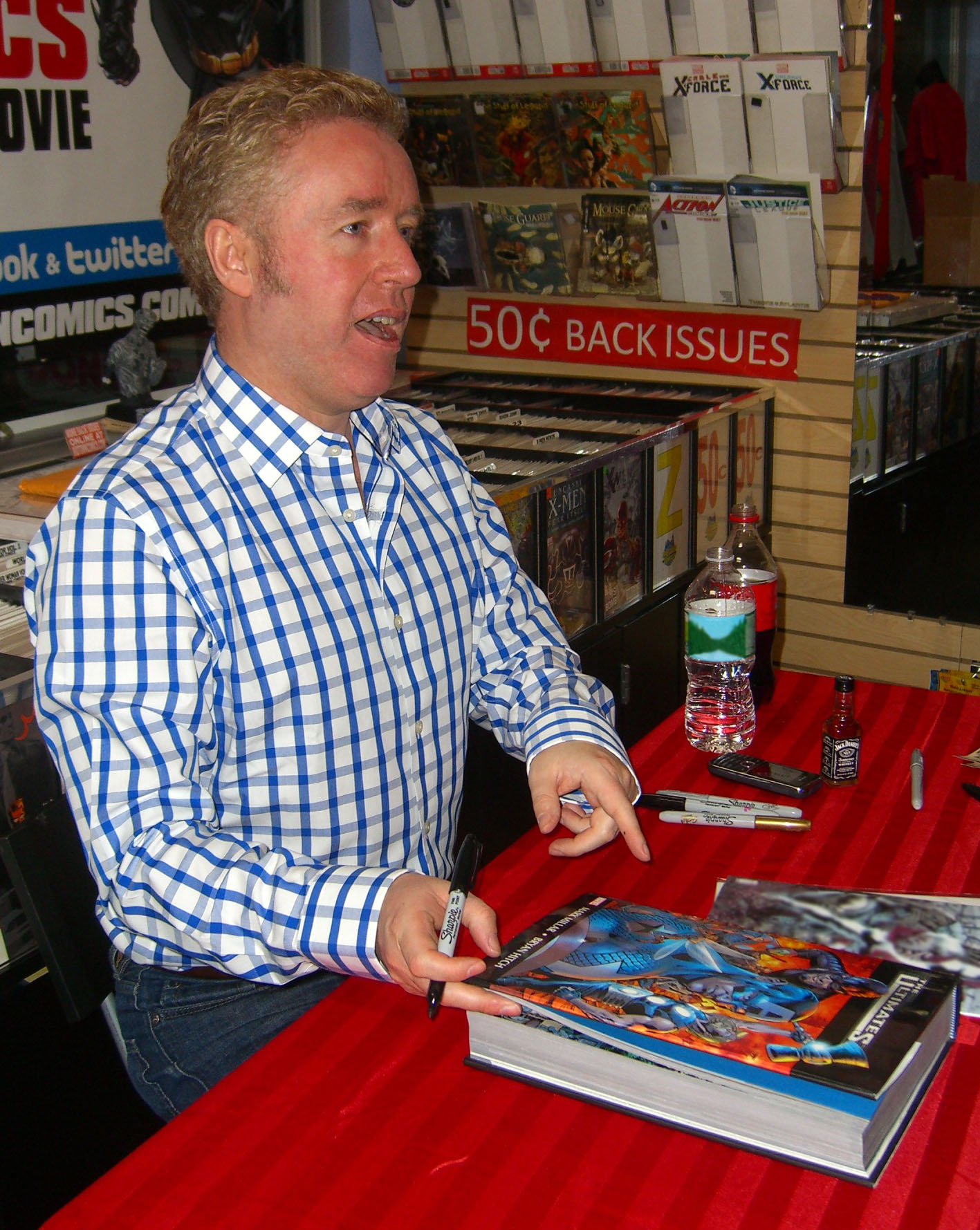 Scottish comics writer Mark Millar at an April 25, 2013 signing at Midtown Comics in Manhattan for his miniseries, Jupiter's Legacy, which debuted the day prior. In the photo, Millar is signing a copy of one of his previous works, The Ultimates. This photo was created by Luigi Novi. It is not in the public domain, and use of this file outside of the licensing terms is a copyright violation.